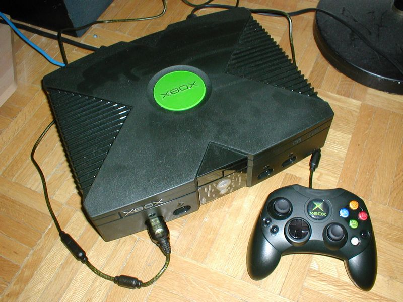 This is a picture of an XBOX, and its controller.